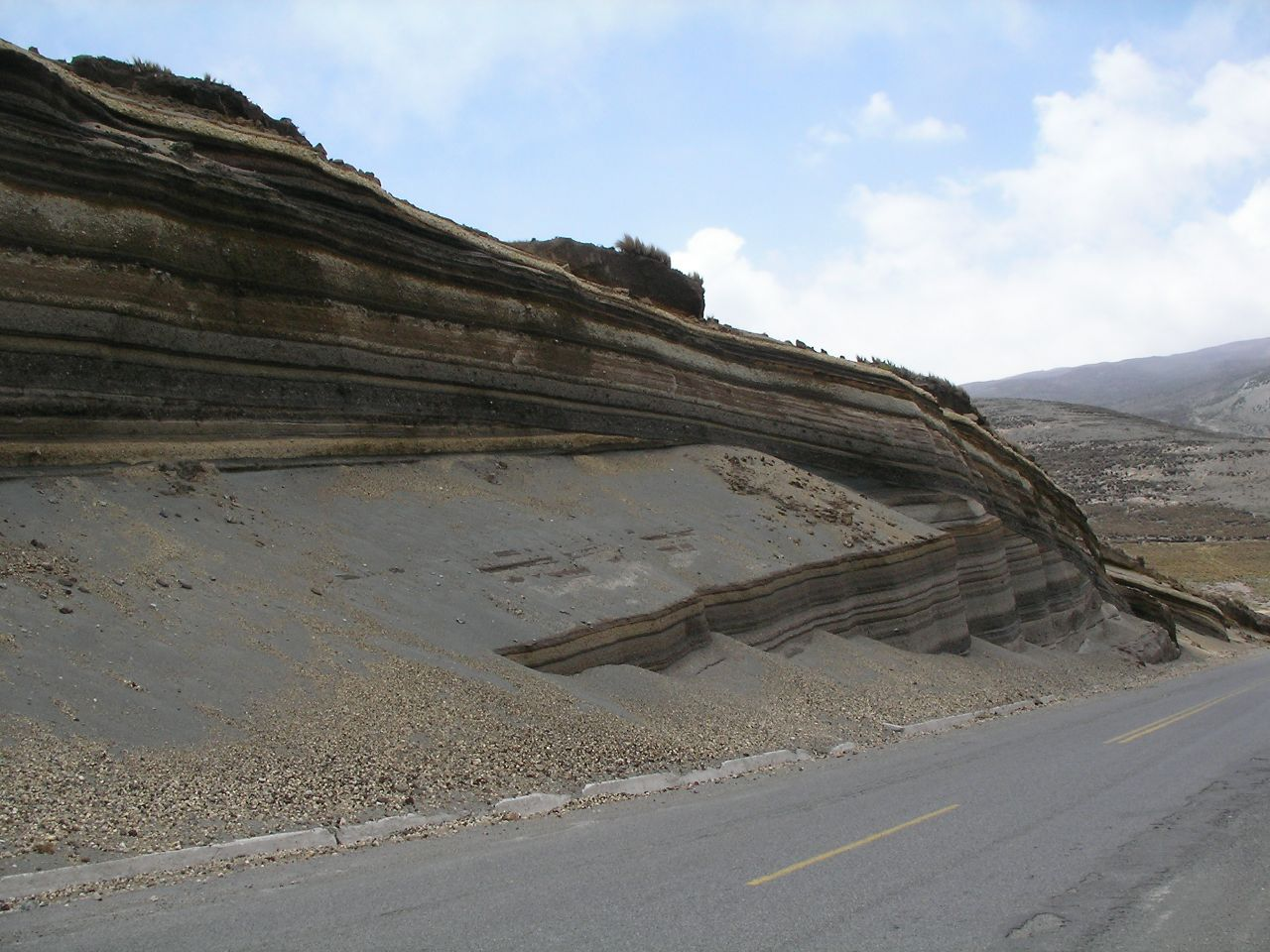 Layers of tephra at Chimborazo volcano in Ecuador.